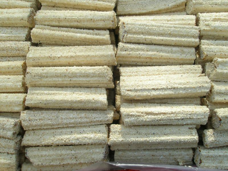 it is a kind of very delicious candy